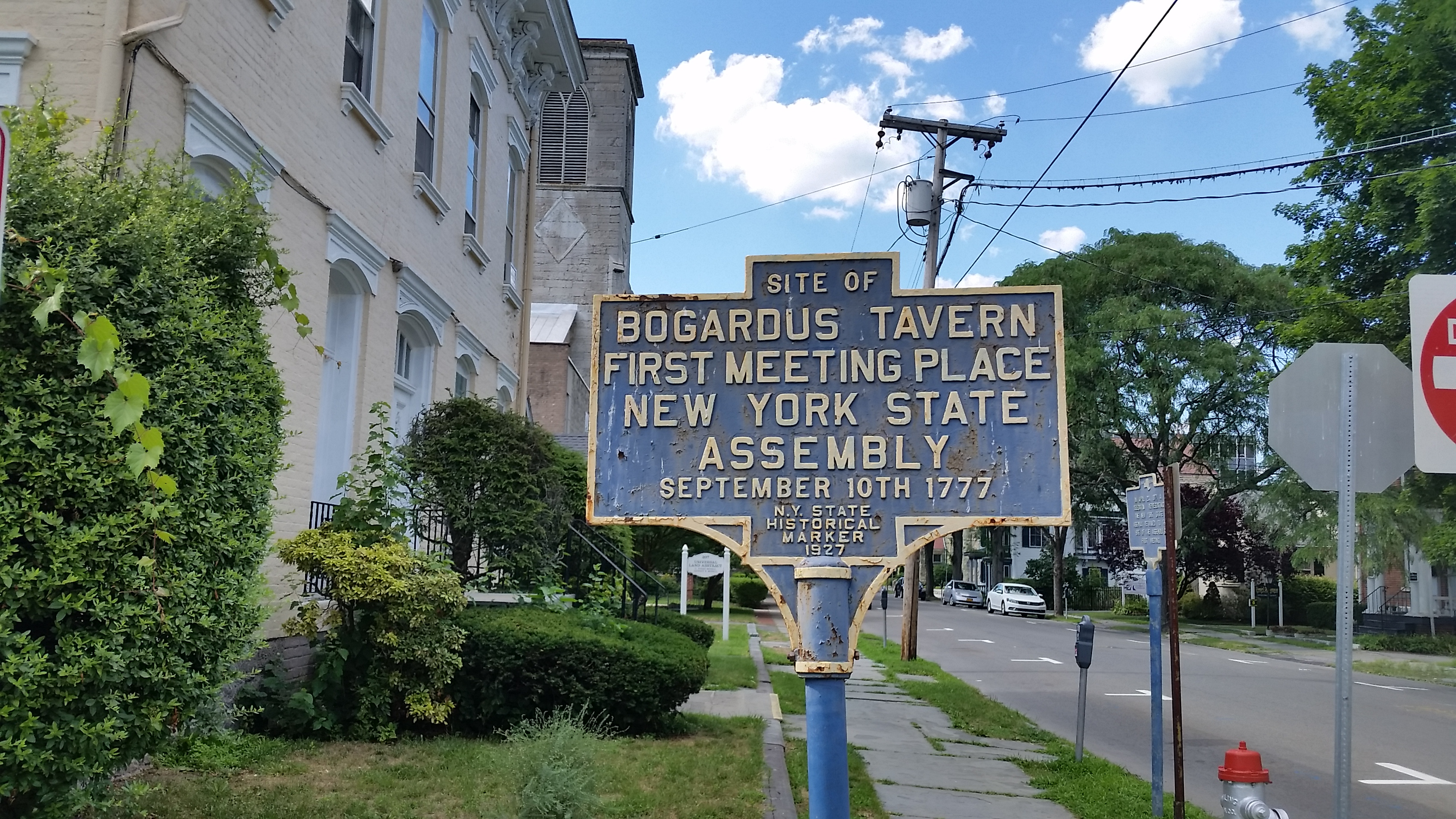 Site of the Bogardus Tavern where the first NY State Assembly met. The British occupied NYC and Albany was under threat of a British attack so the Assembly, even then no the most honorable body, met in a bar.